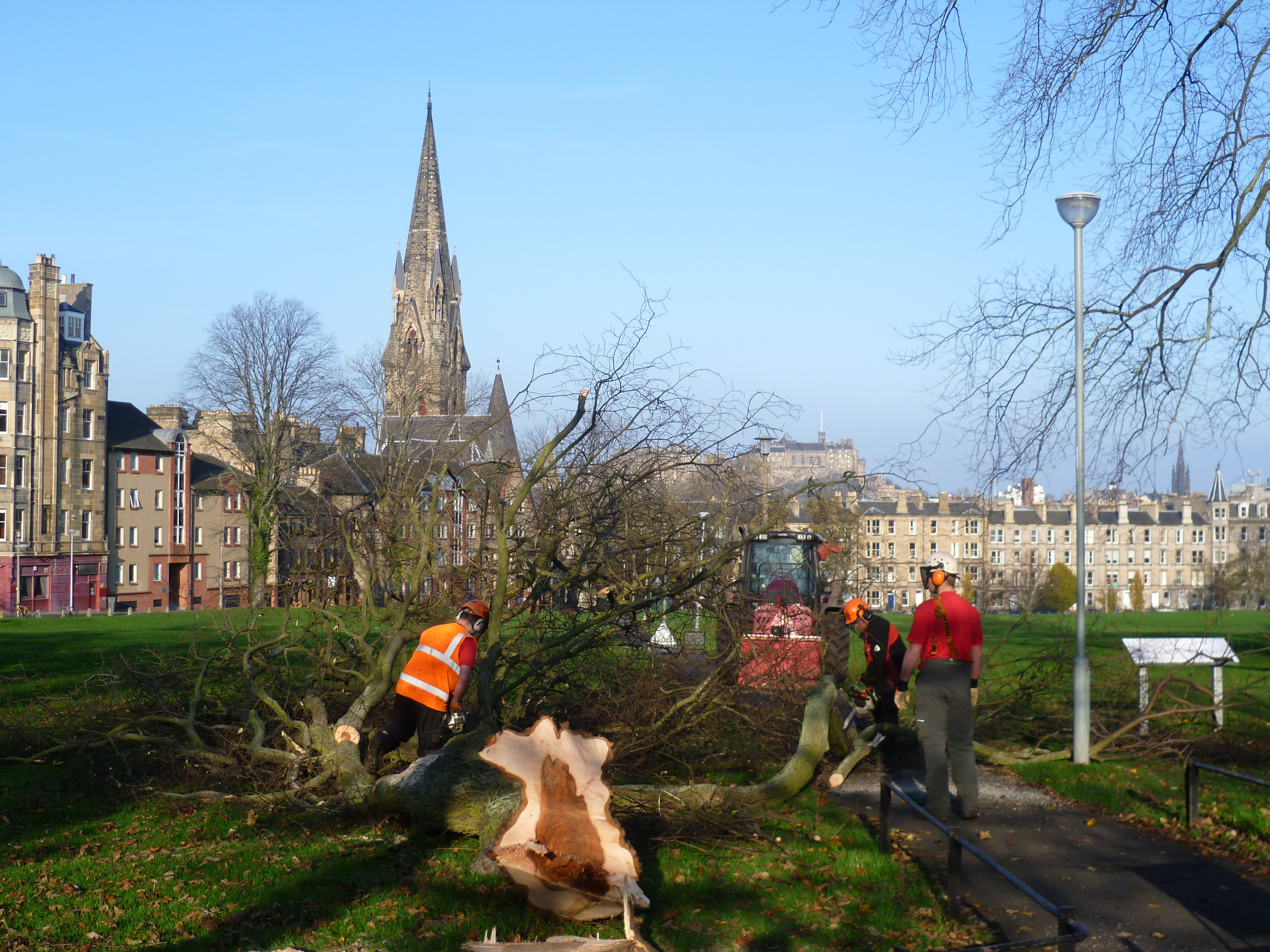 Diseased elm felled on Bruntsfield Links, Edinburgh, November 2011